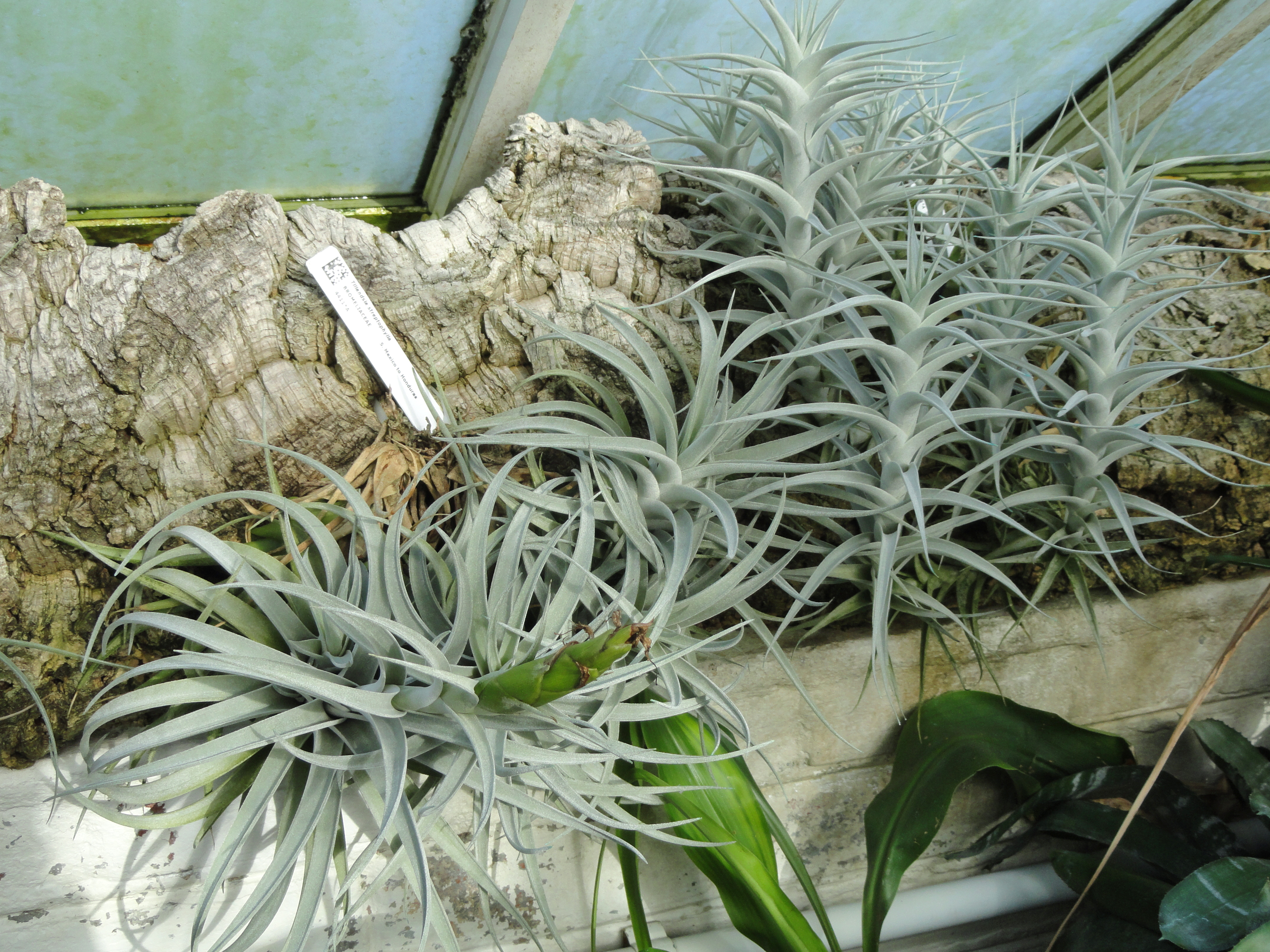 Botanical specimen in the Lyman Plant House, Smith College, Northampton, Massachusetts, USA.